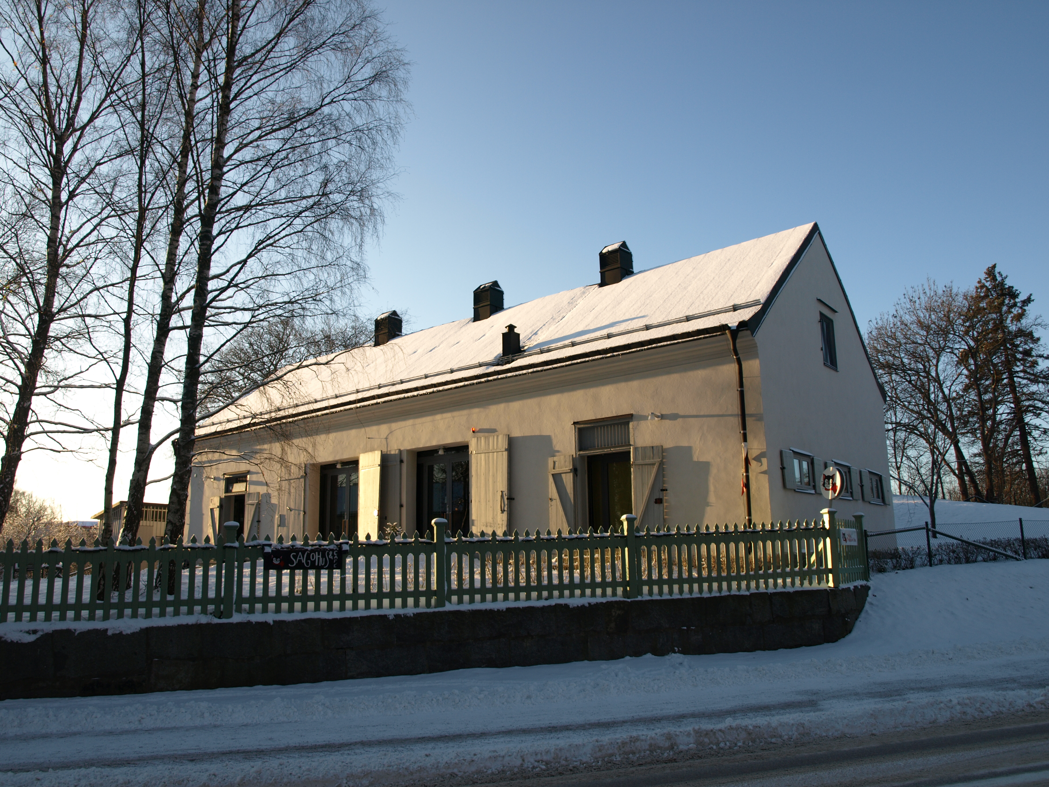 The house of Pelle Svanslös, a well known children's character in Sweden. The house is located near the castle of Uppsala, Sweden.